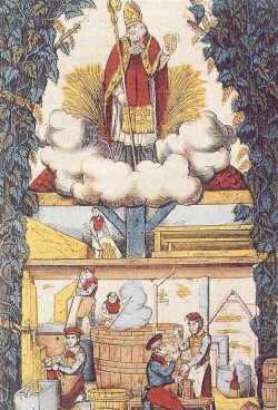 An image of Saint Arnold (Arnulf) of Metz as the patron saint of beer brewing